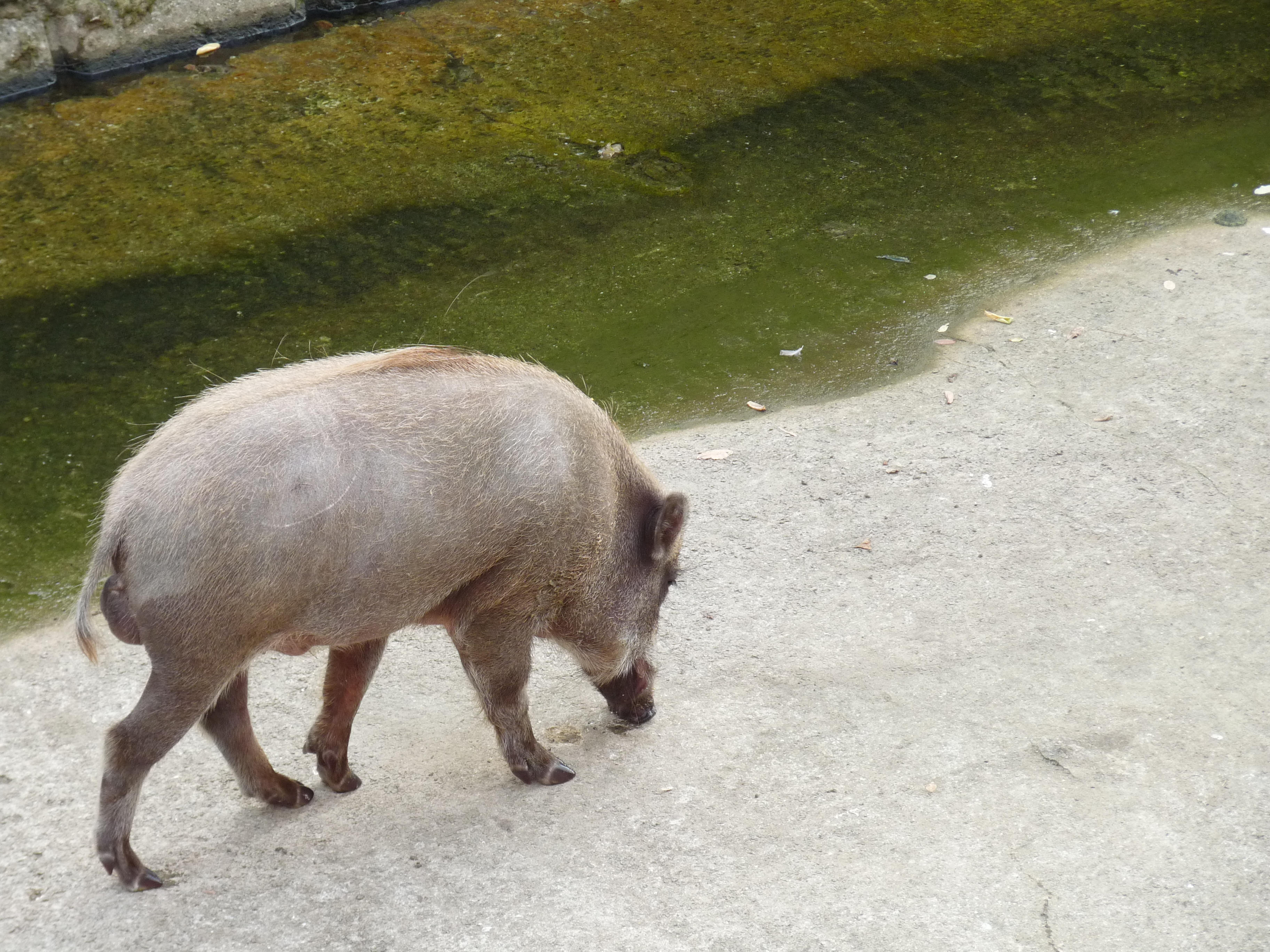 Sus scrofa in Tenjo-gawa river, Kobe, Hyogo, Japan